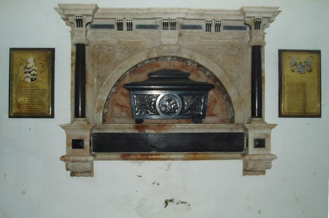 Memorial to Pitt-Rivers. One wall of St Peter's Church at Tollard Royal is devoted to the Pitt-Rivers family and especially to Augustus Henry Lane Fox Pitt-Rivers (1827-1900) who lived at nearby Rushmore House and who was president of the Anthropological Institute in 1881-82 and who donated much of his collection to the Museum in Oxford founded in 1884